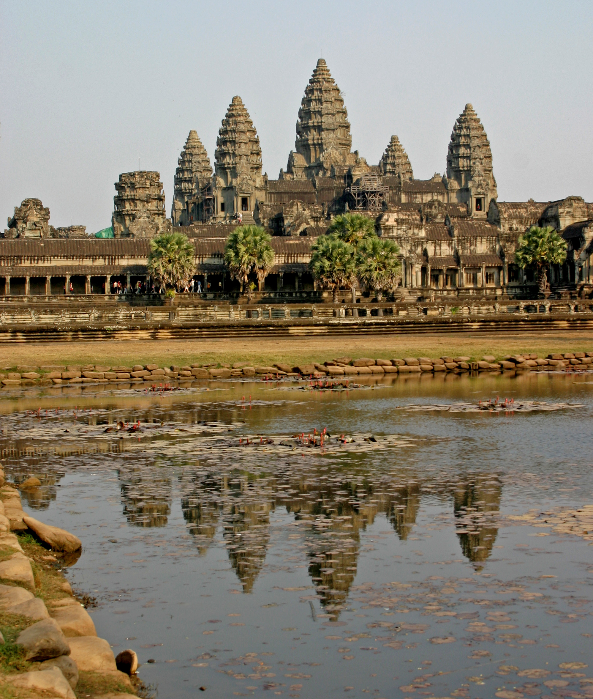 Angkor Wat